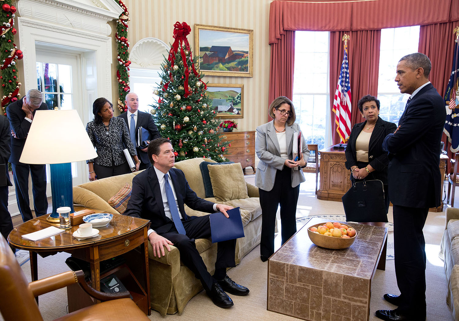 "Following a meeting to discuss the latest information on the mass shootings in San Bernardino, Calif., the President has some last words with, from left, Chief of Staff Denis McDonough, National Security Advisor Susan E. Rice, FBI Director James Comey (seated on sofa), Alejandro N. Mayorkas, Deputy Secretary of Homeland Security, Lisa Monaco, Assistant to the President for Homeland Security and Counterterrorism, and Attorney General Loretta Lynch." (Official White House Photo by Pete Souza)